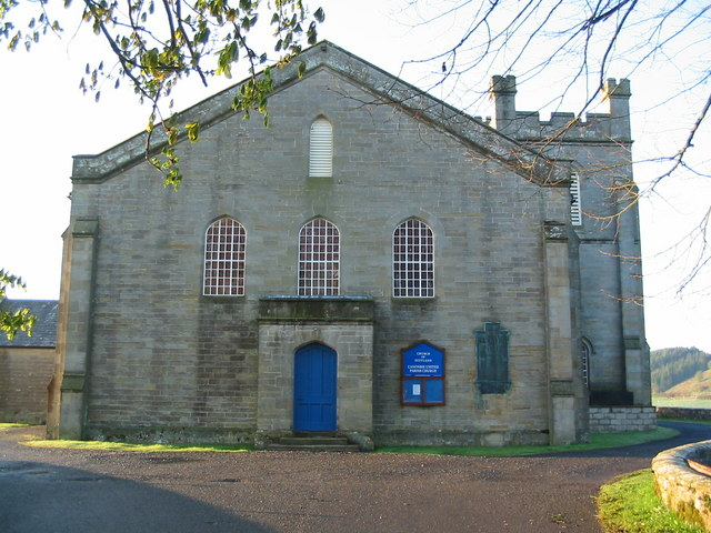 Canonbie Church, Dumfries and Galloway, Scotland